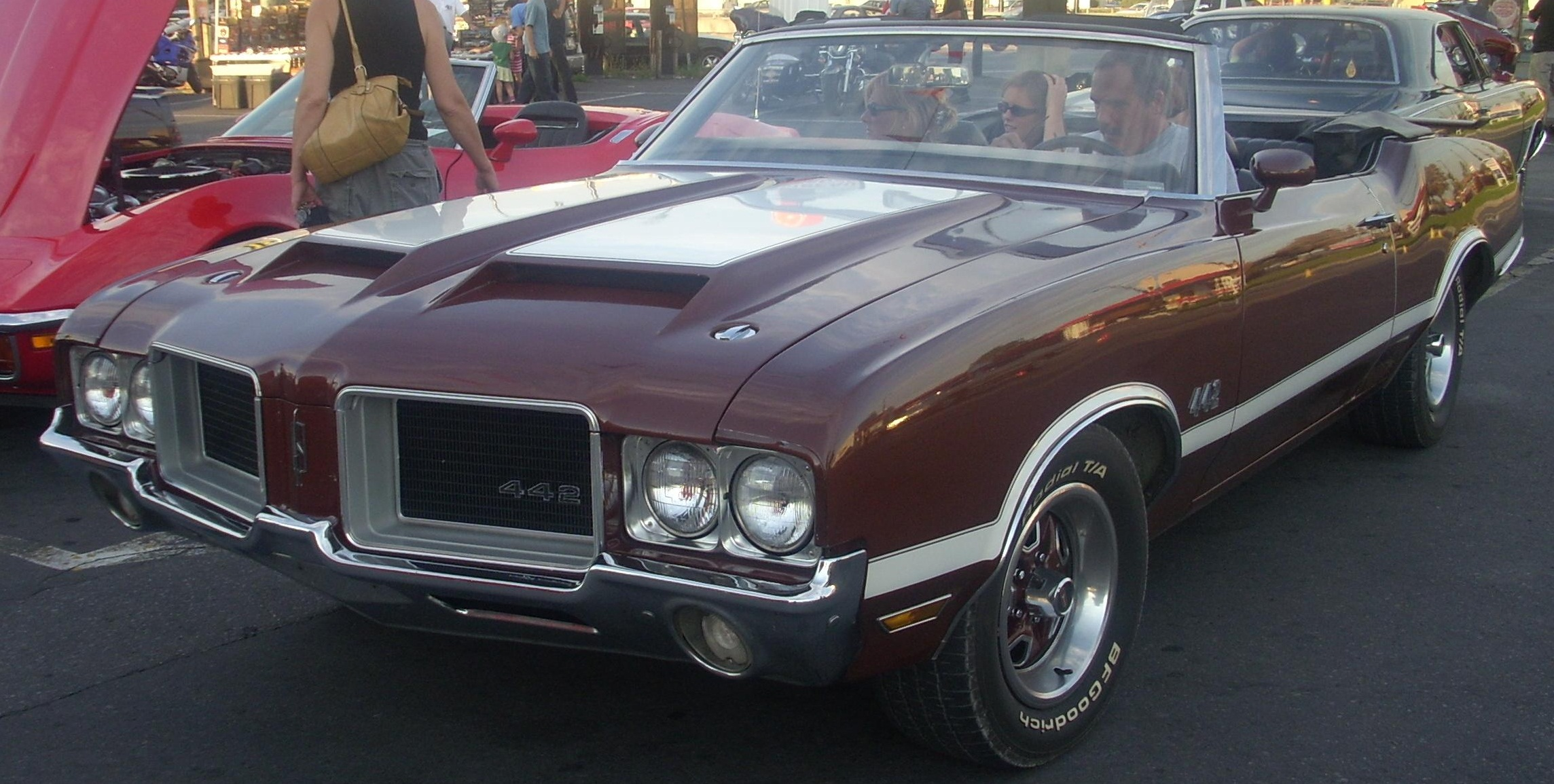 1971 Oldsmobile 442 photographed in Montreal, Quebec, Canada at Gibeau Orange Julep.